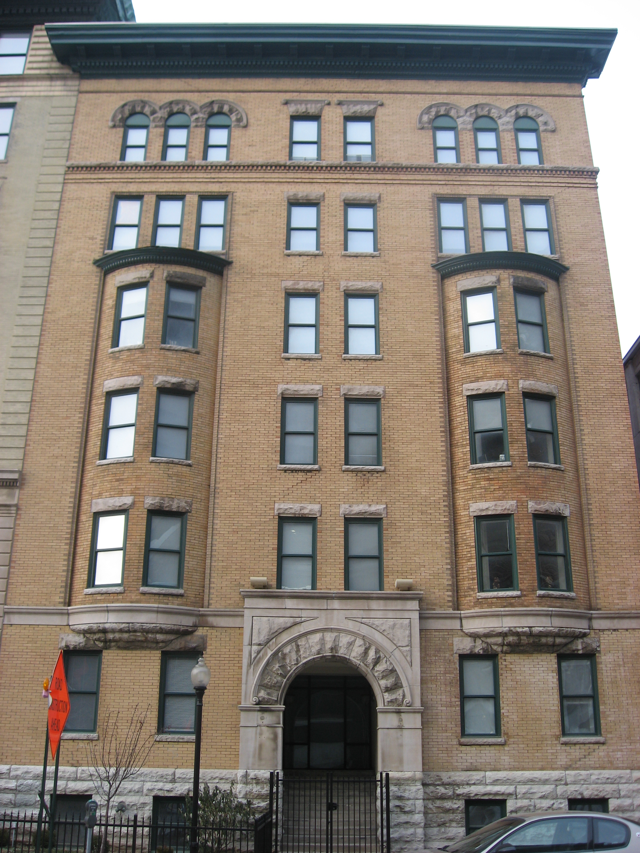 Front of The Savoy, located at 36 W. Vermont Street in Indianapolis, Indiana, United States. Built in 1898, it is listed on the National Register of Historic Places as one of the "Apartments and Flats of Downtown Indianapolis Thematic Resources".